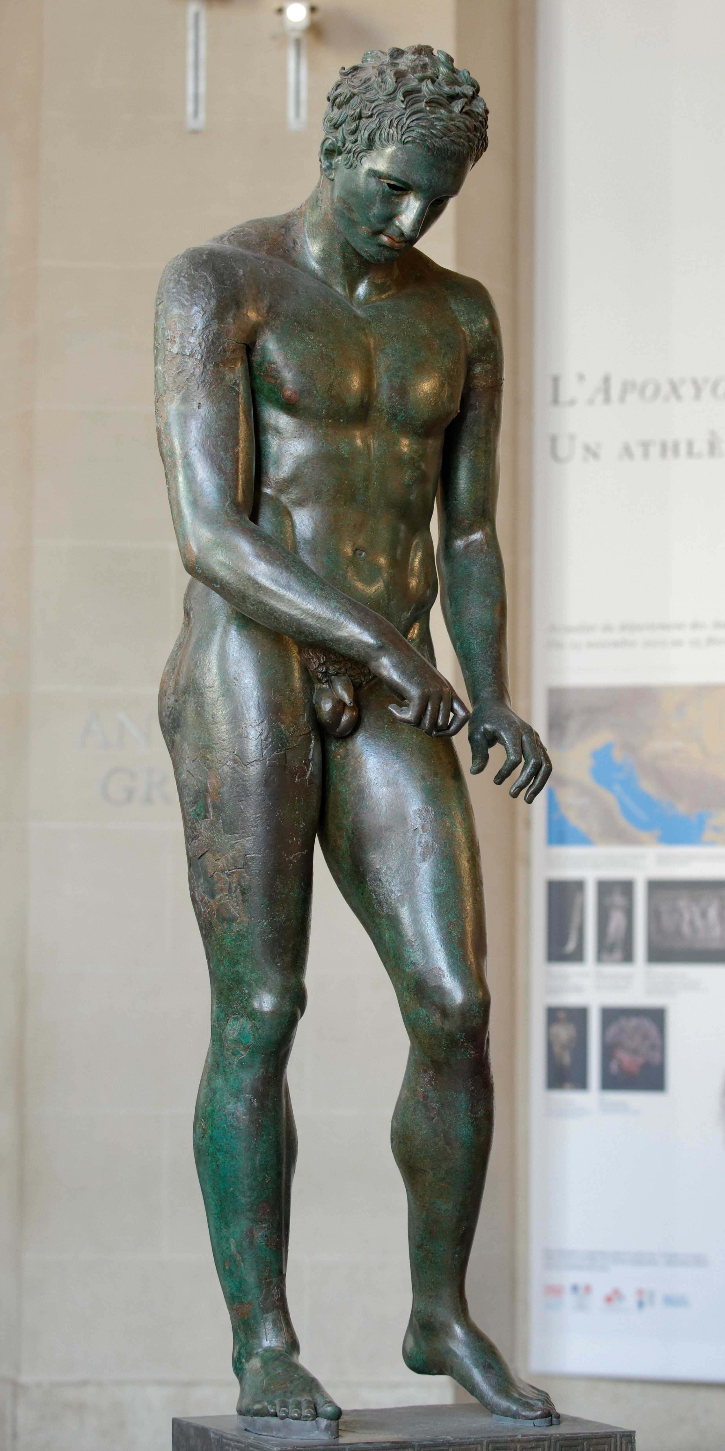 Statue of an athlete scraping himself or scraping his strigil.